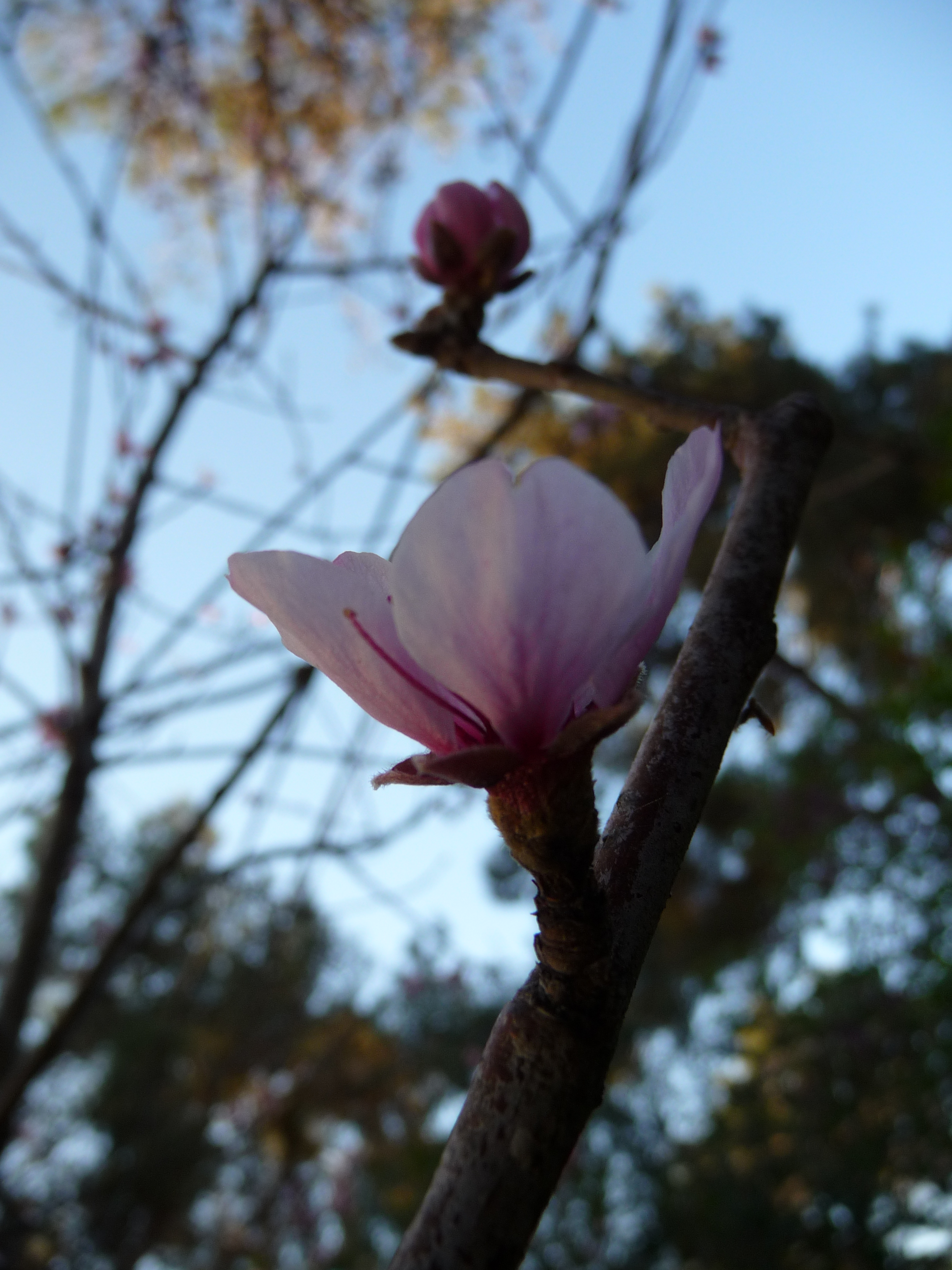 Beit Oren is a kibbutz in northern Israel. It falls under the jurisdiction of Hof HaCarmel Regional Council.